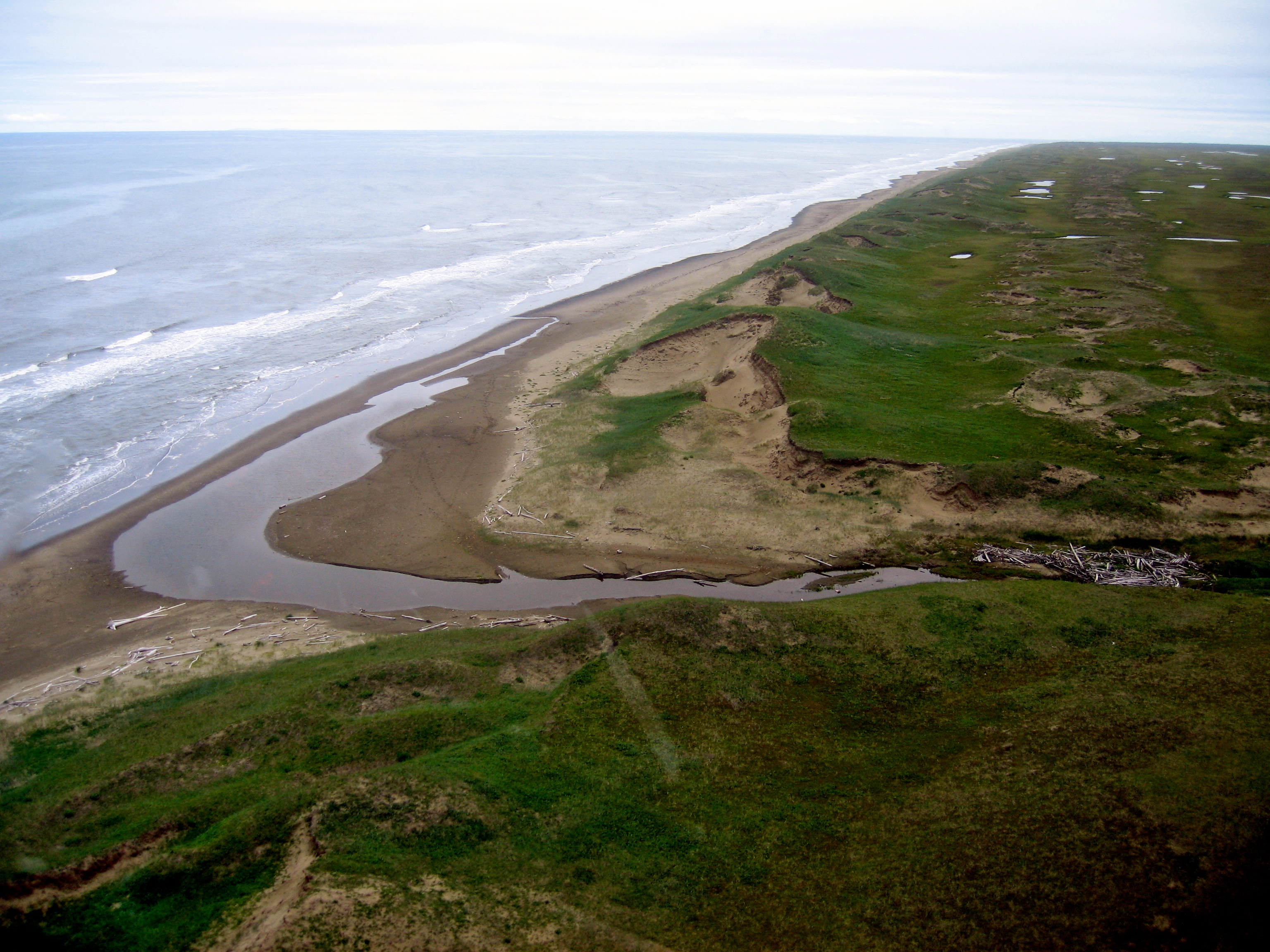 At Cape Espenberg, the Bering Sea meets the Chukchi and Kotzebue Sound. There is no sense of time here, only the cycle of the seasons and forces of the ocean.